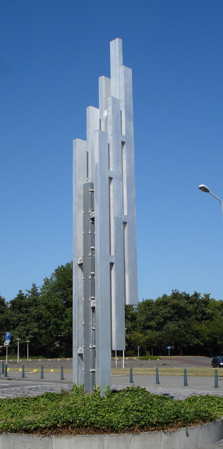 The Hague, The Netherlands, object from Willem Hussem